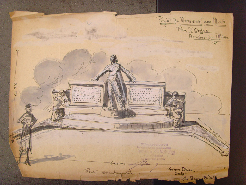 Kriegerdenkmal von Plan-d’Orgon Entwurf von Vernon Blake (1875-1930)